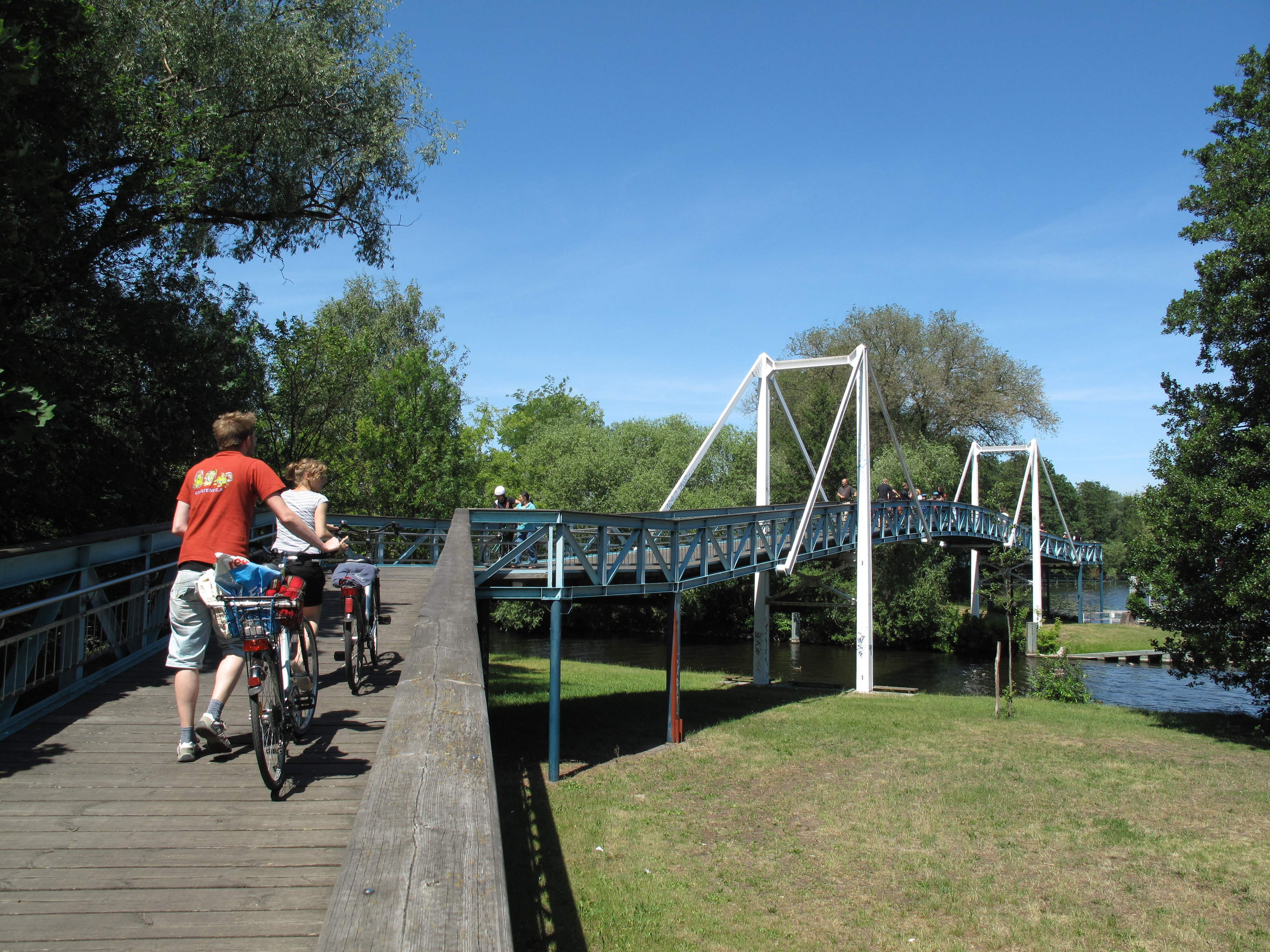 The Oberhavelsteg spans the Teufelsseekanal (canal) and is situated in Berlin, Borough Spandau, locality Hakenfelde. The foot- and bikeway bridge is part of the Berlin-Copenhagen Cycle Route and of the Havel Cycle Route (german: Havelradweg). The barrier-free cable-stayed bridge was opened in 1991 and has a length of 125 meters.